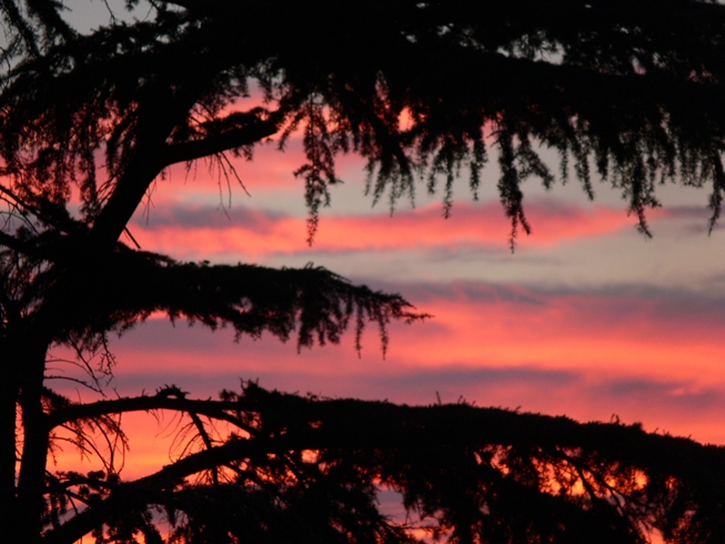 summer sunset